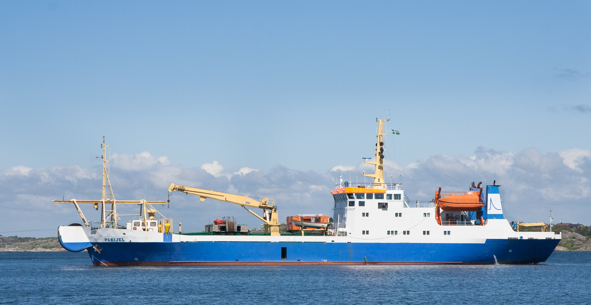 Cable layer C/S Pleijel. IMO Number: 7229502 MMSI Number: 265098000 Callsign: SMWY Length: 73 m Beam: 13 m